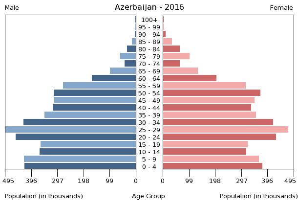 The population pyramid of Azerbaijan illustrates the age and sex structure of population and may provide insights about political and social stability, as well as economic development. The population is distributed along the horizontal axis, with males shown on the left and females on the right. The male and female populations are broken down into 5-year age groups represented as horizontal bars along the vertical axis, with the youngest age groups at the bottom and the oldest at the top. The shape of the population pyramid gradually evolves over time based on fertility, mortality, and international migration trends.